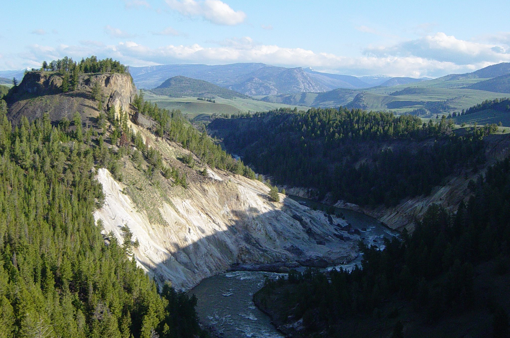 Photo taken in the Yellowstone area.